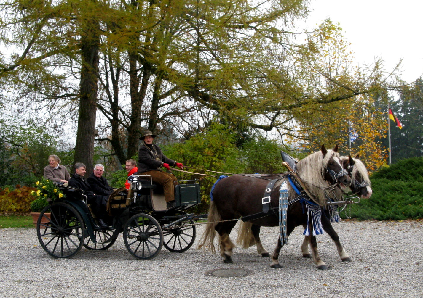 Priest of Bergheim on his Way to Leonhardifahrt in Bannacker, Augsburg, Bavaria